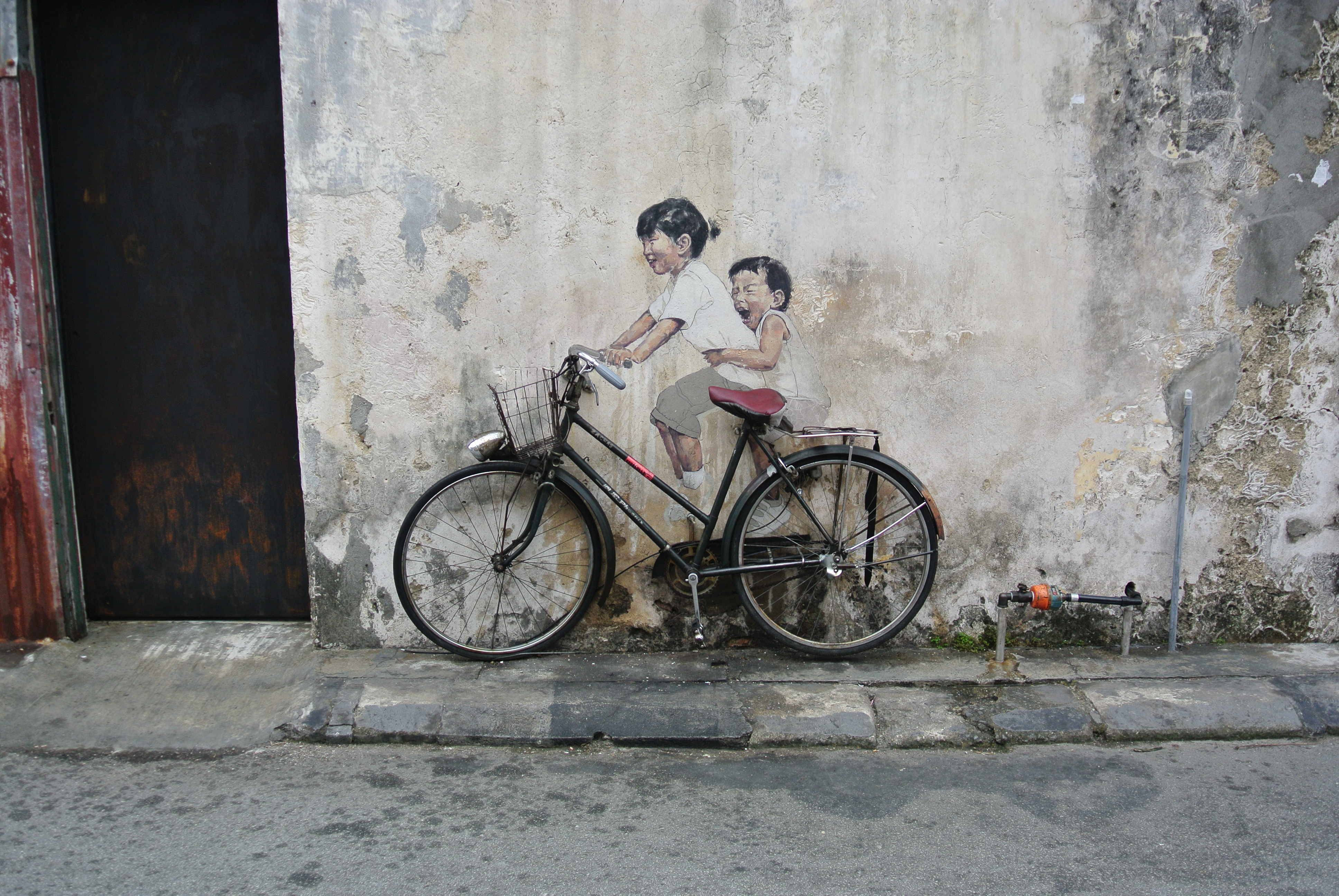 Penang Street Art Bicycle